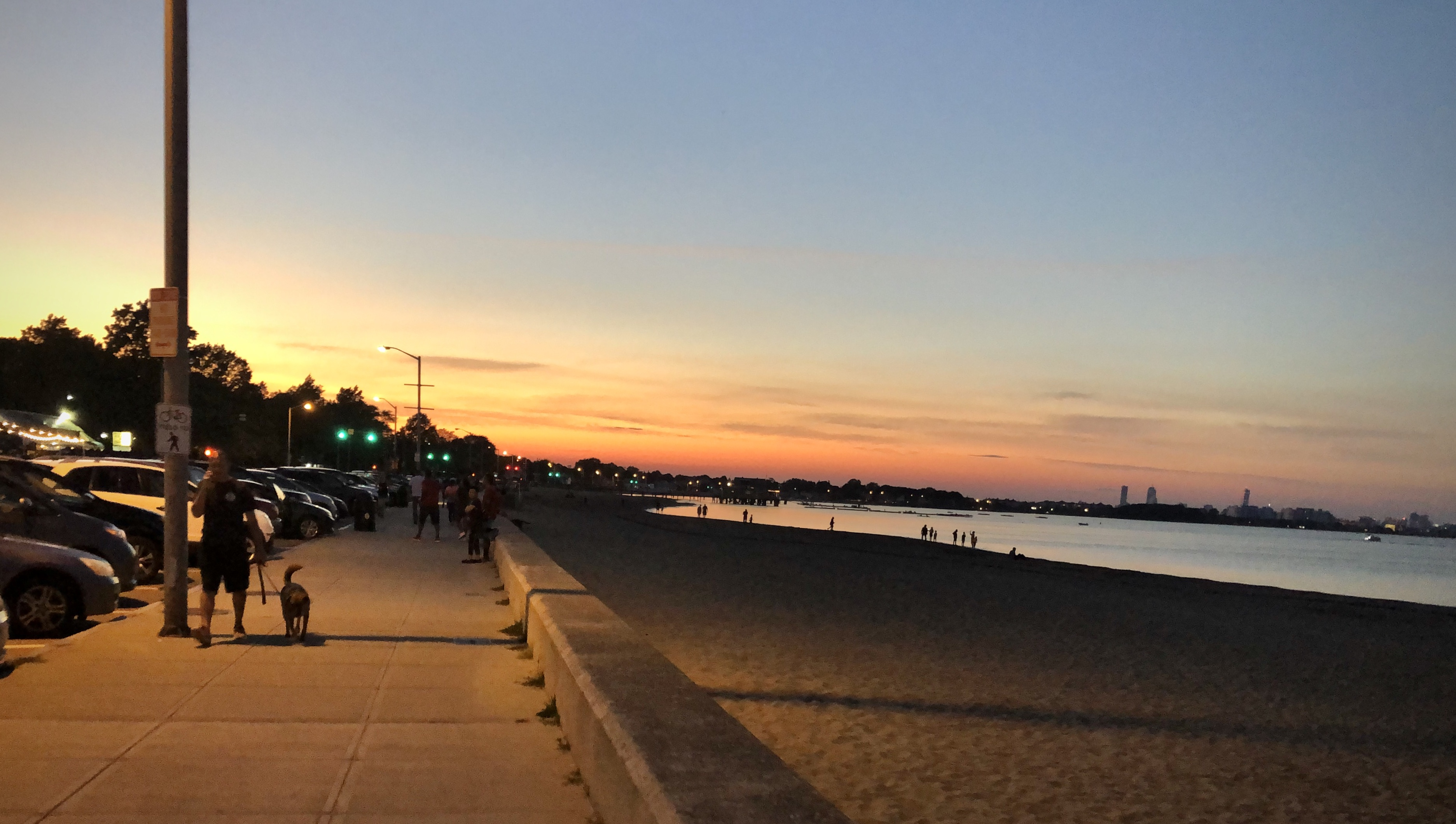 wolly beach 1